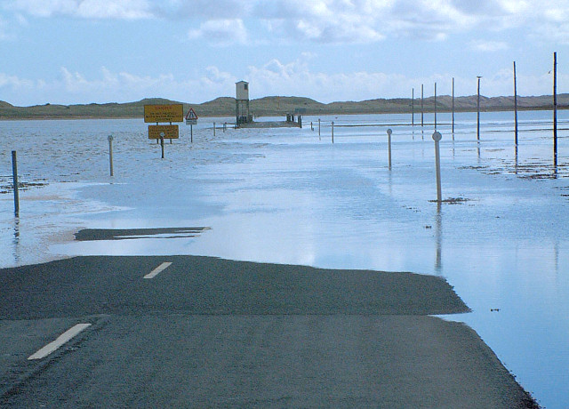 Come Back Later! The causeway leading to Lindisfarne is only passable at low tide!